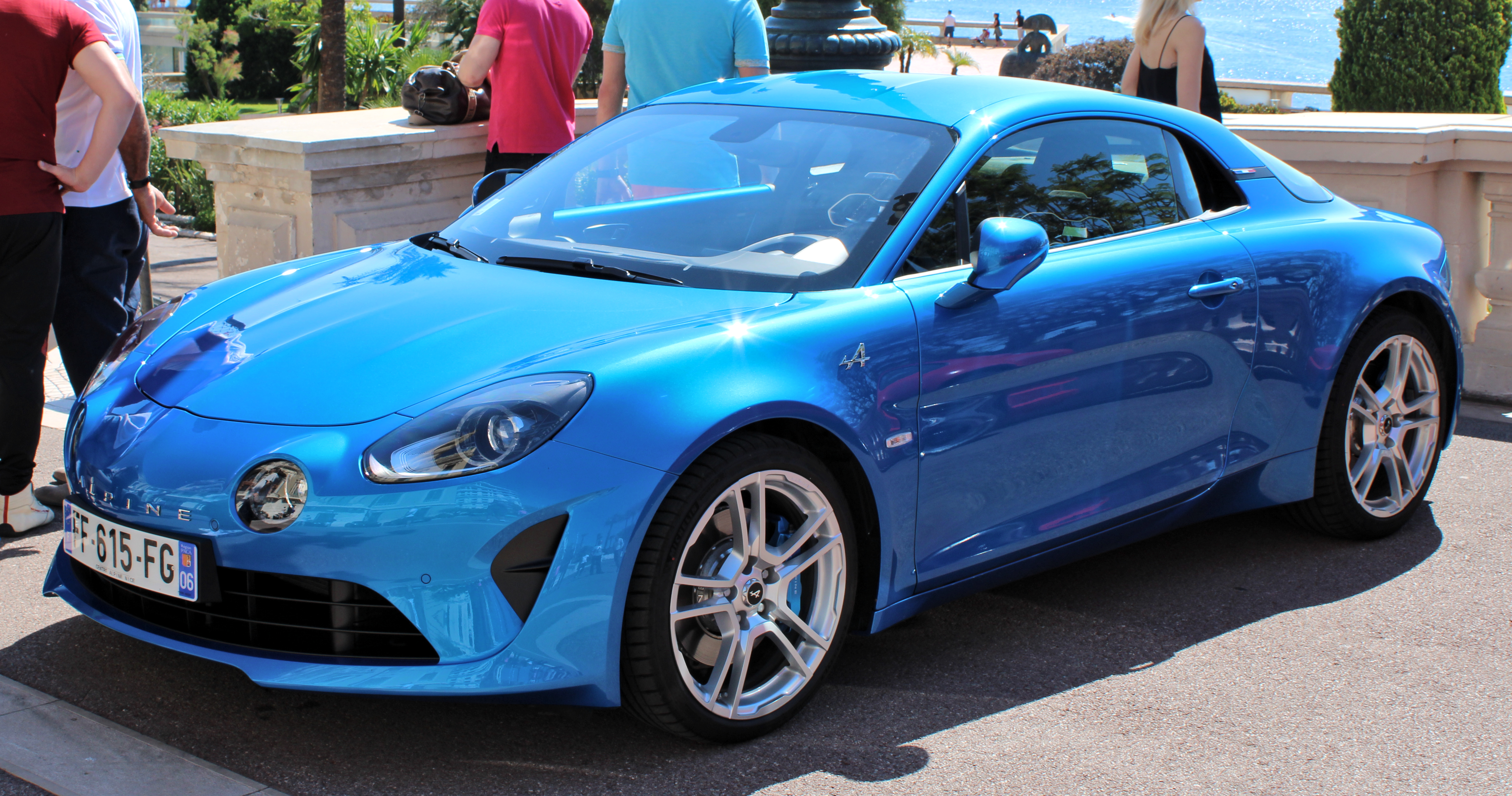 Alpine A110 in Monaco